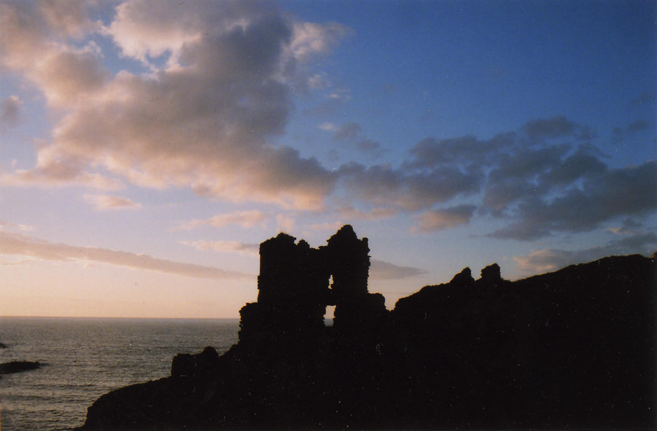 Oisin O'Brien, 2005 Kinbane Castle, Antrim, Northern Ireland.